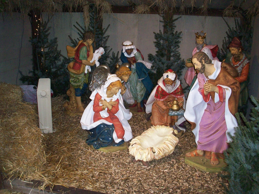 Crib on the market square of Leuven, Belgium